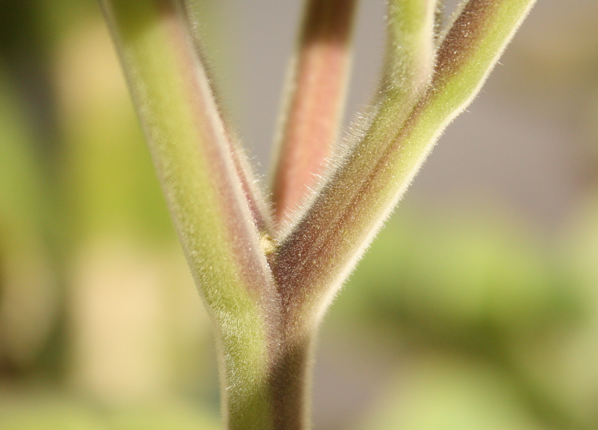 Greenhouse-grown Datura inoxia stem. Trichomes are obvious.